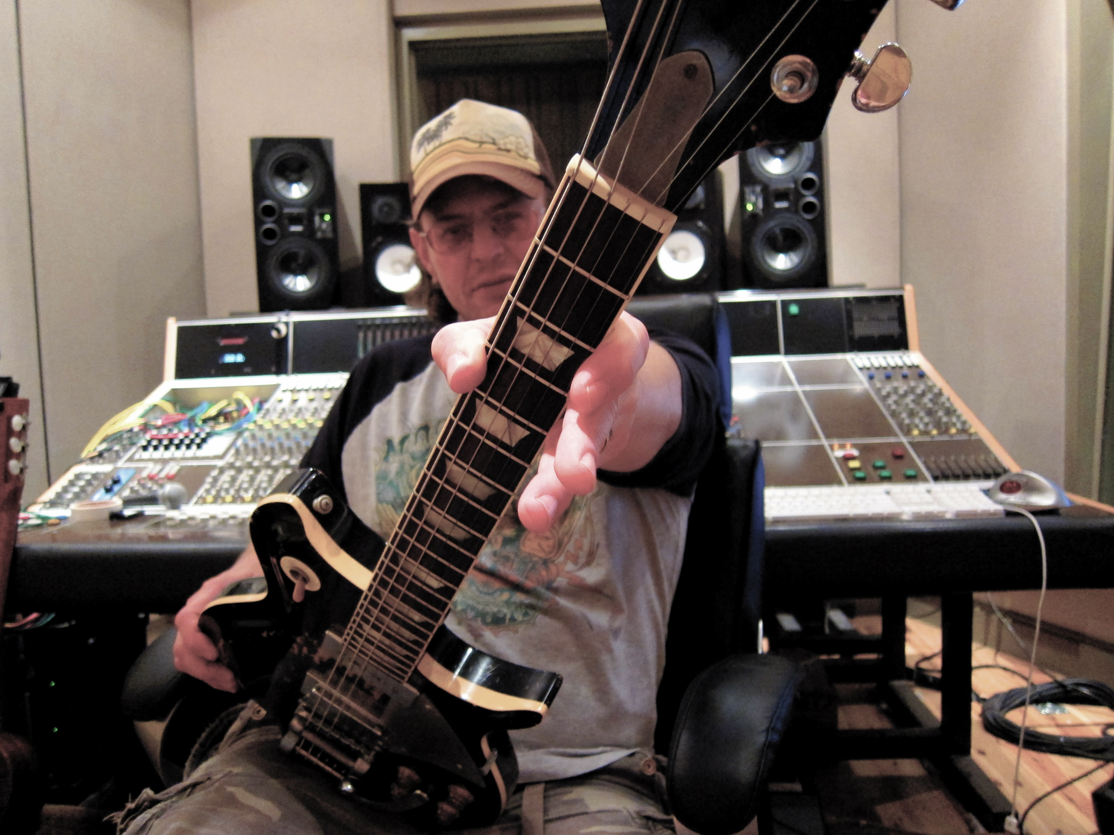 Kevin Kadish pictured in a recording studio